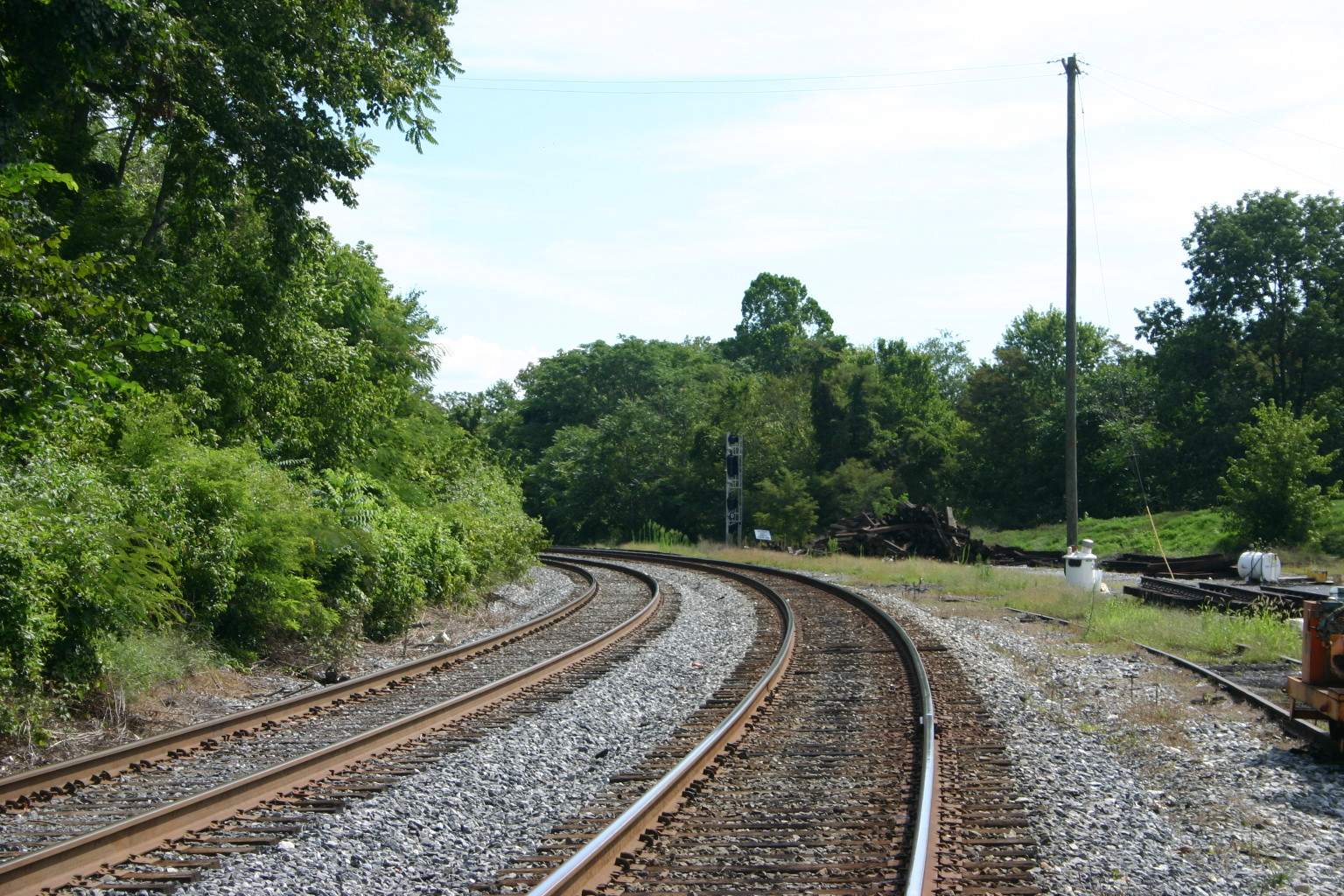 Railroad signal at Point of Rocks, Maryland